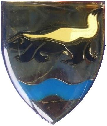 SADF era Insele Commando emblem